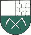 Coat of arms of Kraubath an der Mur, Styria Das Wappen zeigt "in einem von Silber und Kürsch halbgespaltenen Schilde zwei schräggekreuzte silberne Berghauen im unteren grünen Felde".